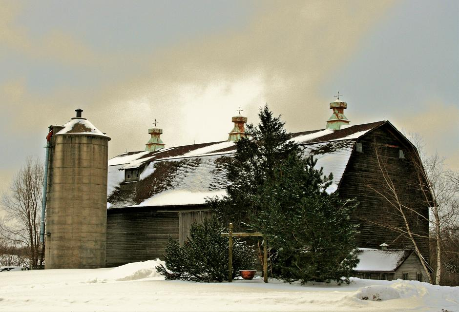 Sheridan Spring Barn, Walworth County, wisconsin